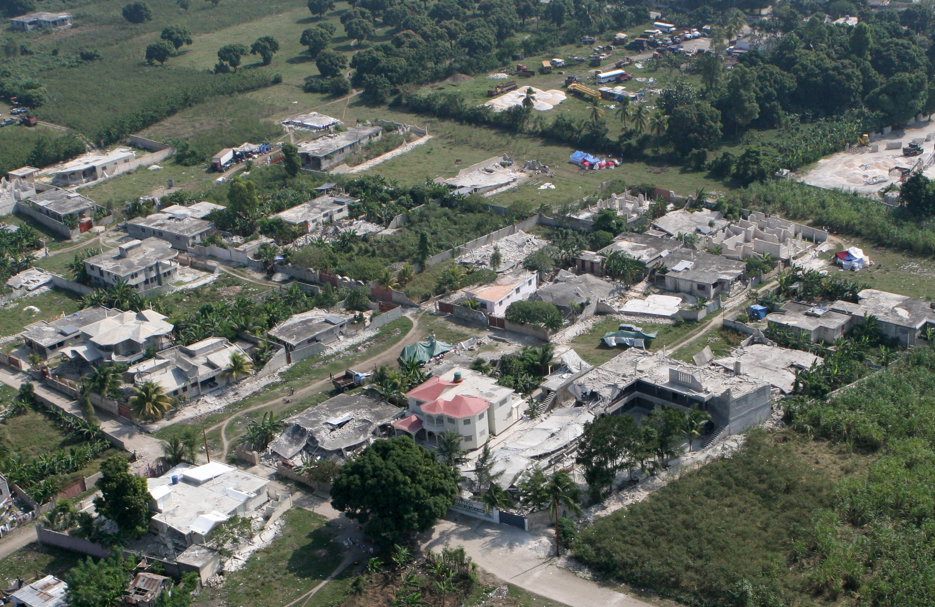 Overflight of Leogane, Haiti following the 2010 earthquake.